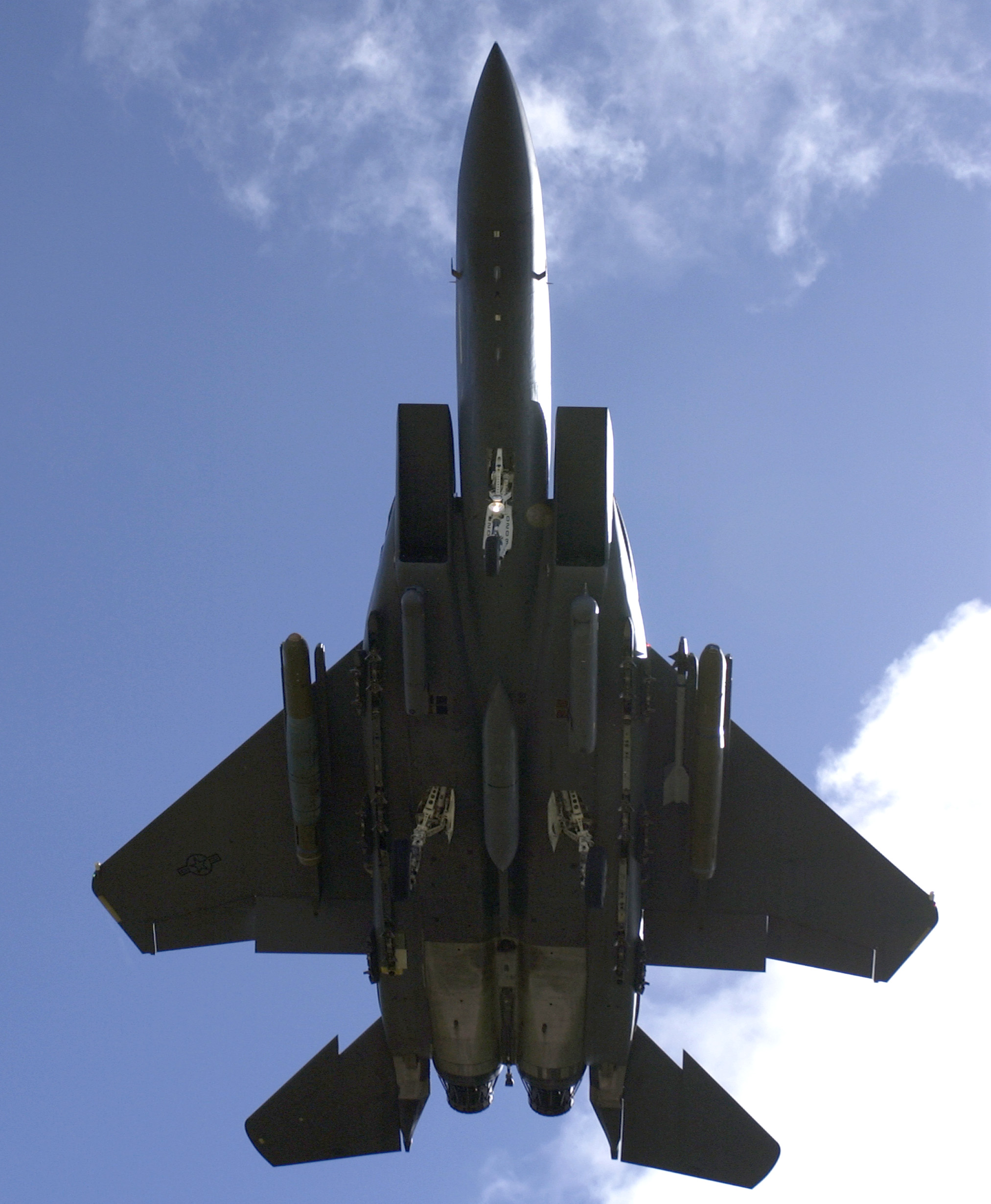 An F-15E Strike Eagle from Elmendorf Air Force Base, Alaska, prepares to land at Andersen AFB, Guam, on Wednesday, June 14. The Strike Eagles are here through September as part of an air expeditionary deployment.